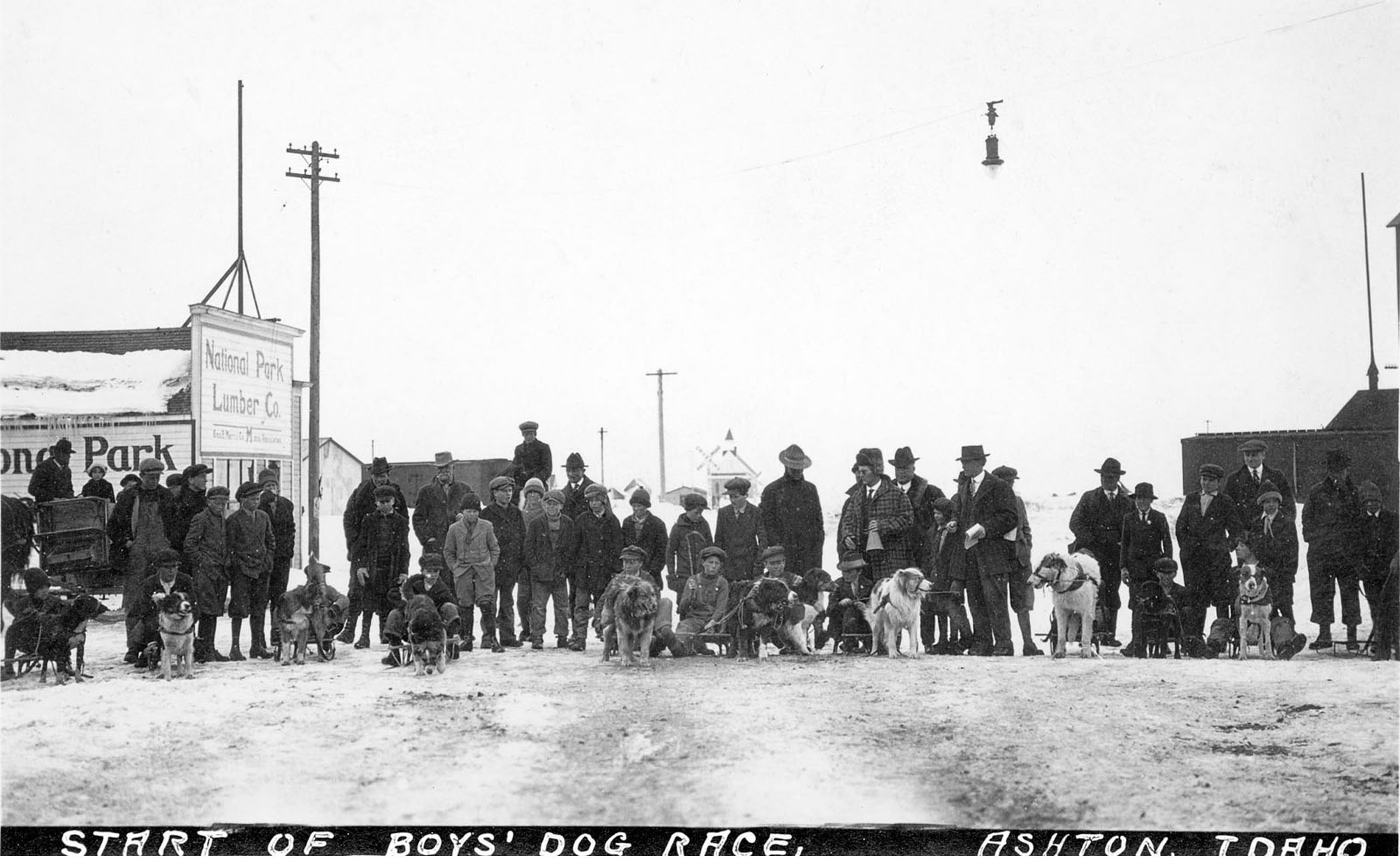 Start of Boy's Race and First American Dog Derby